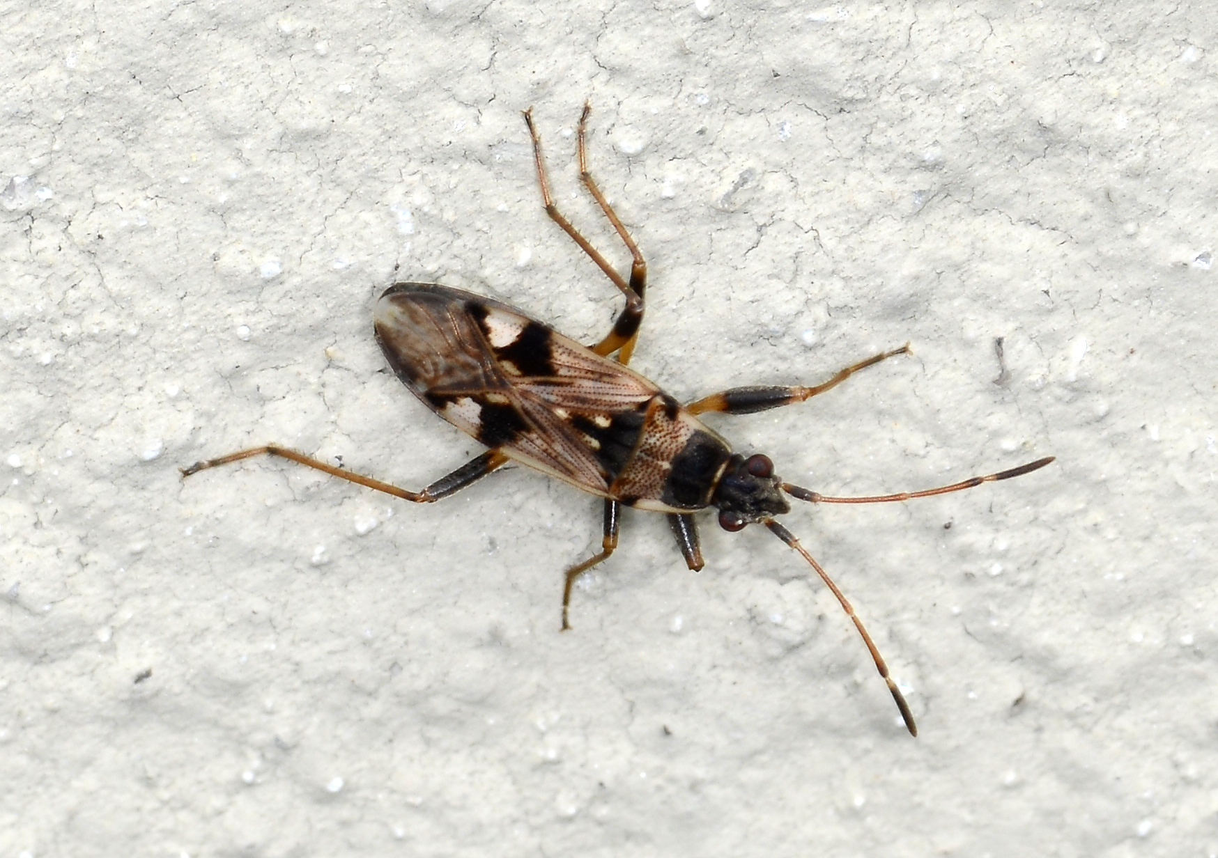 Beosus maritimus. photographed in southern germany.